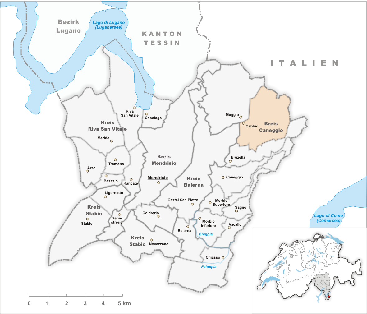 Municipality Cabbio